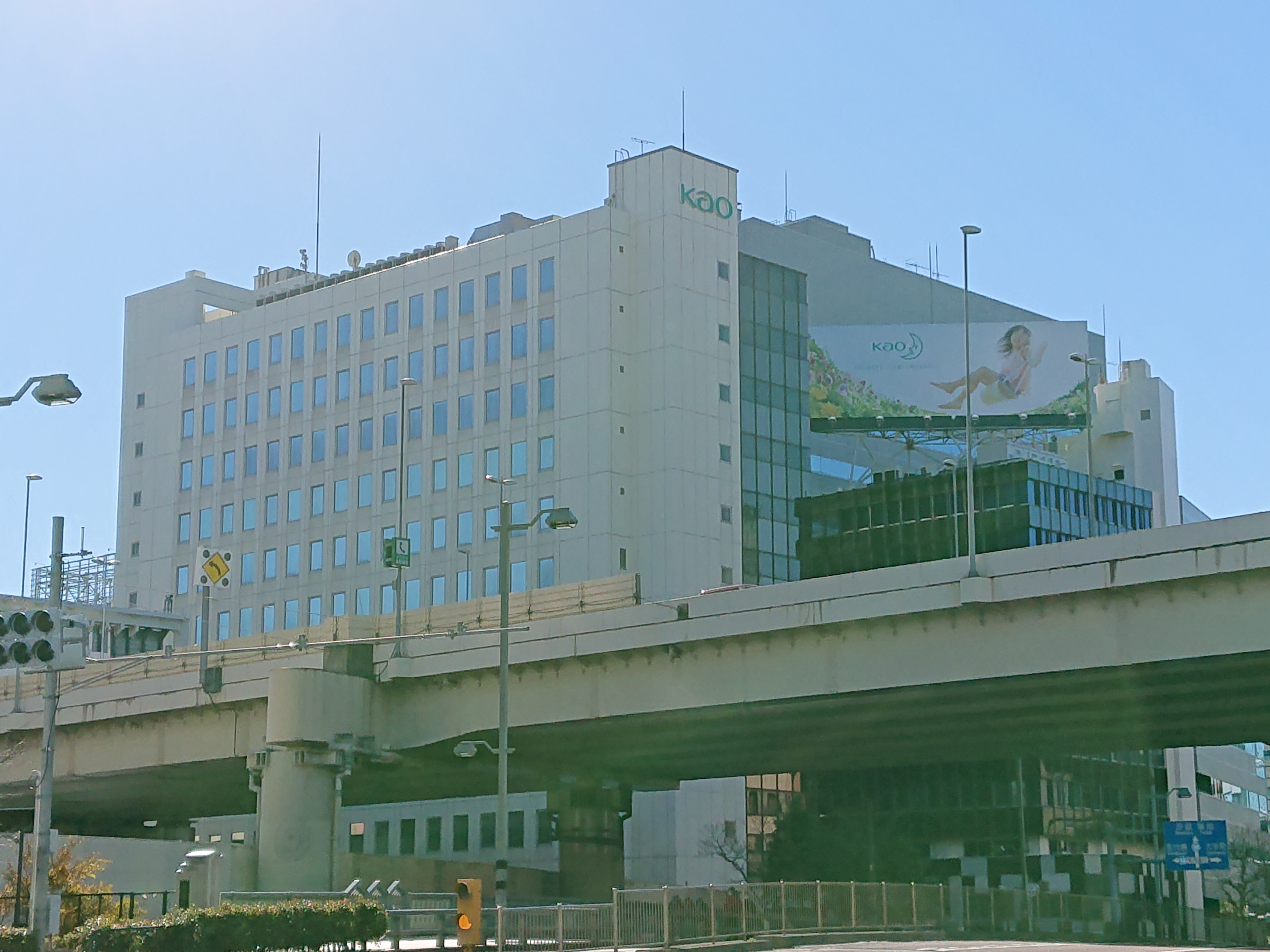 Shibusawa Building (澁澤ビル), located at 1-14-10 Nihonbashi-Kayabacho, Chuo, Tokyo, Japan